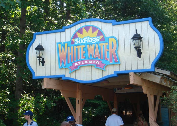 Six Flags Whitewater Atlanta Entrance